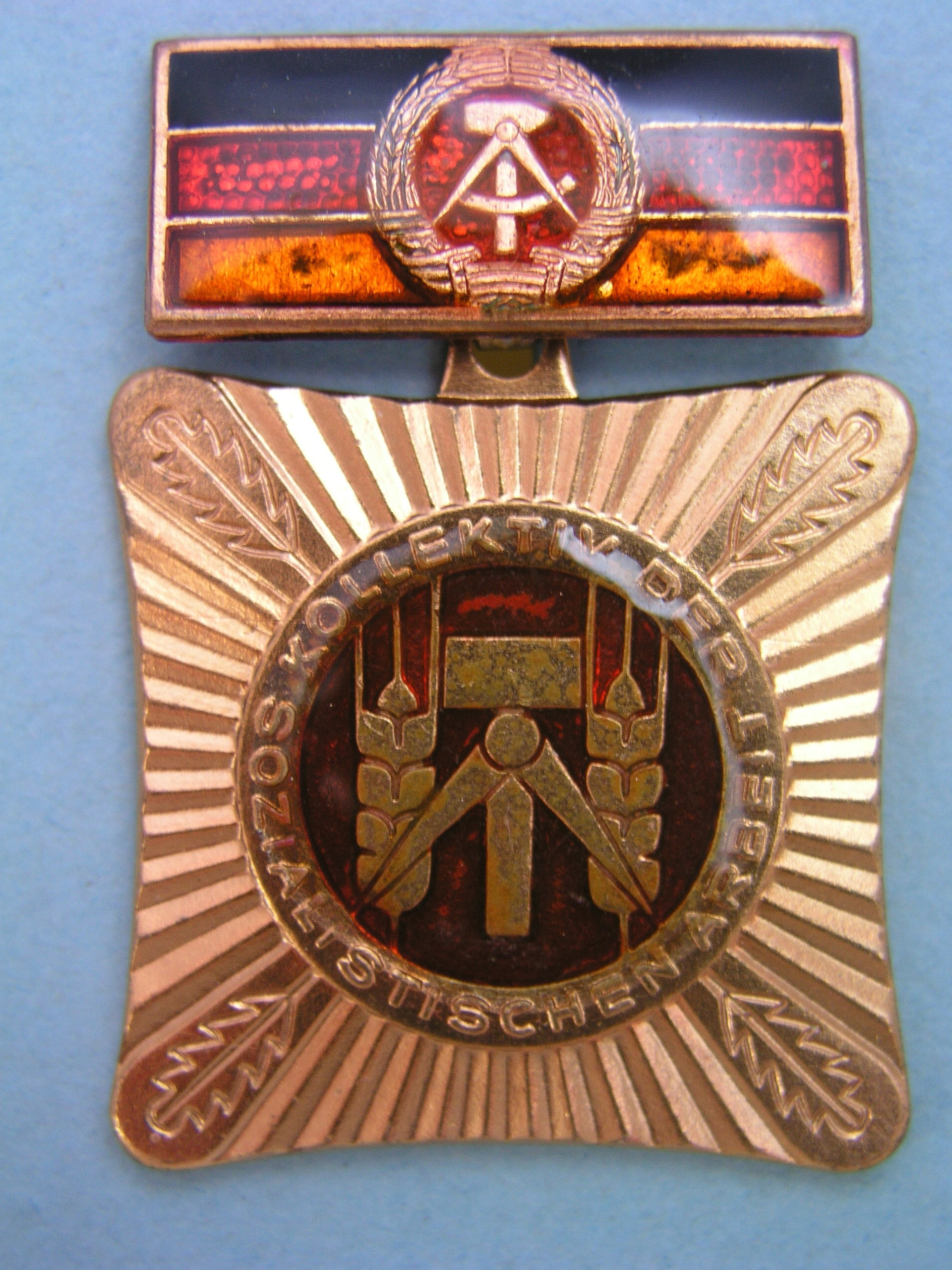 Medal Collective of socialistic work (GDR)